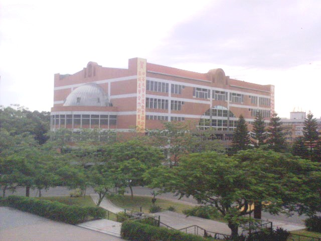 Chung Hua University's library building